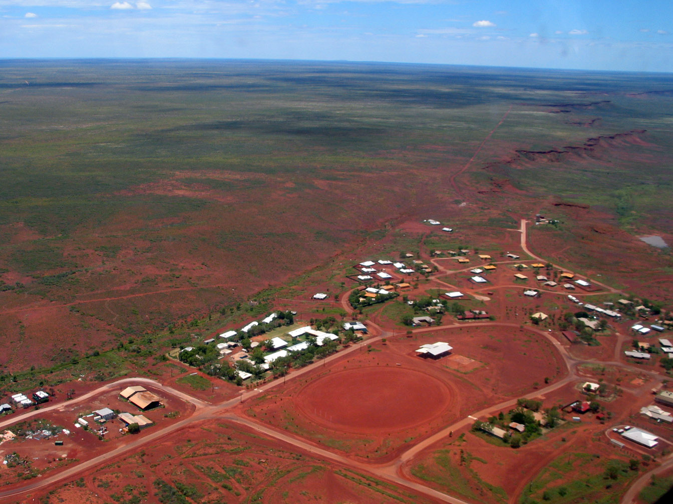 View of Balgo - Wirrumanu, Western Australia, from the air